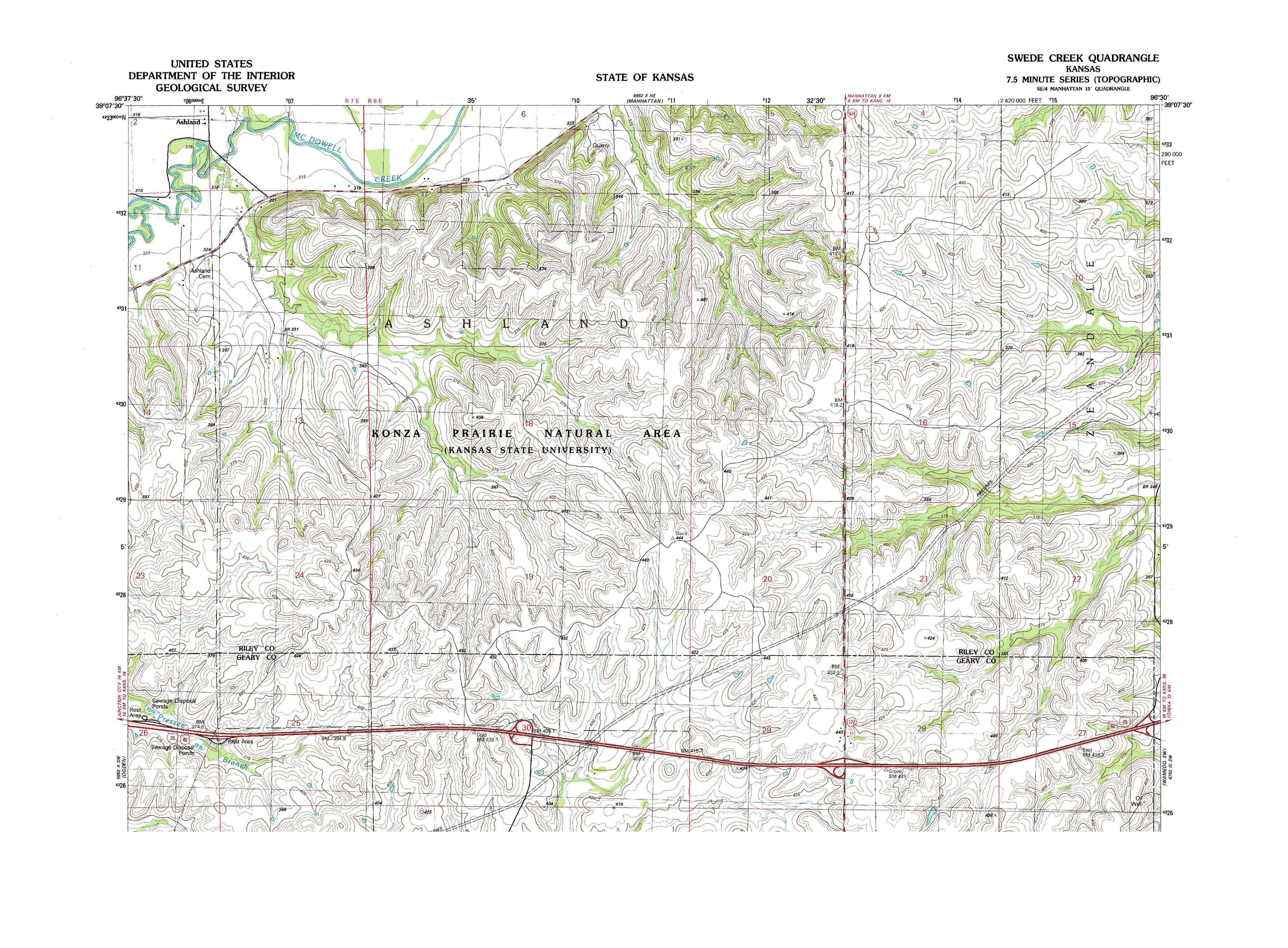 Topographic map of the Konza Prairie—Konza Prairie Preserve locale, in northeastern Kansas. A tallgrass prairie habitat in the Flint Hills. Shown on a portion of the Swede Creek USGS Topographic Quadrangle.